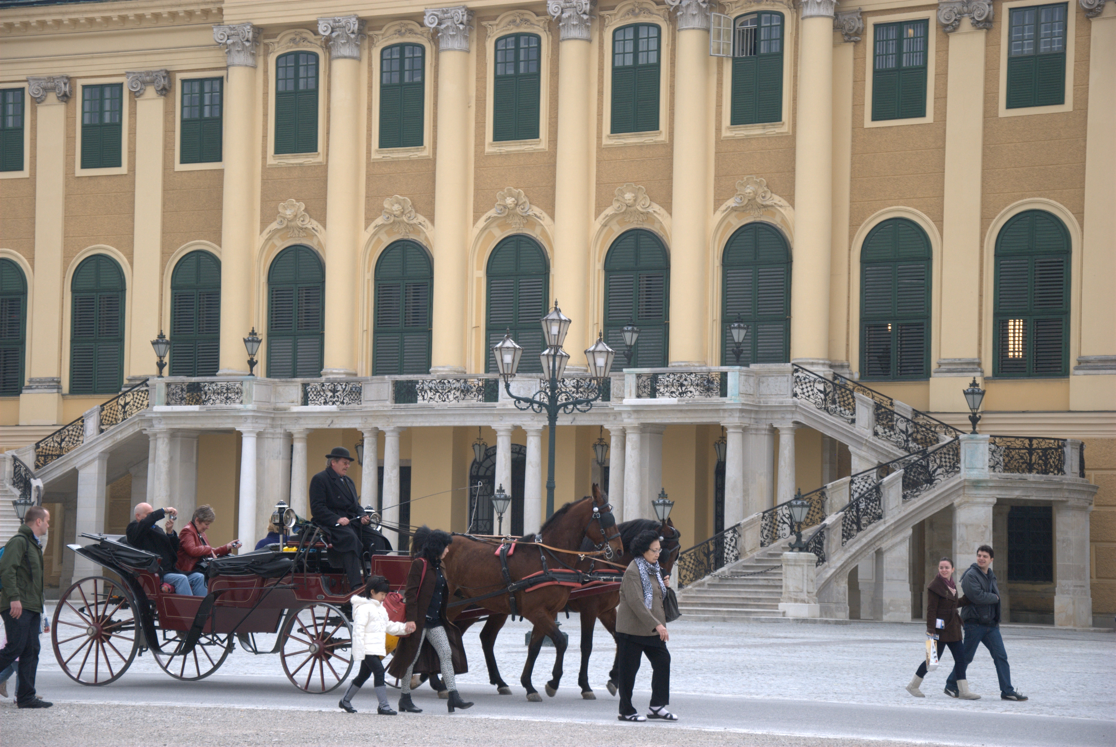 Schönbrunn Palace in Vienna, Austria